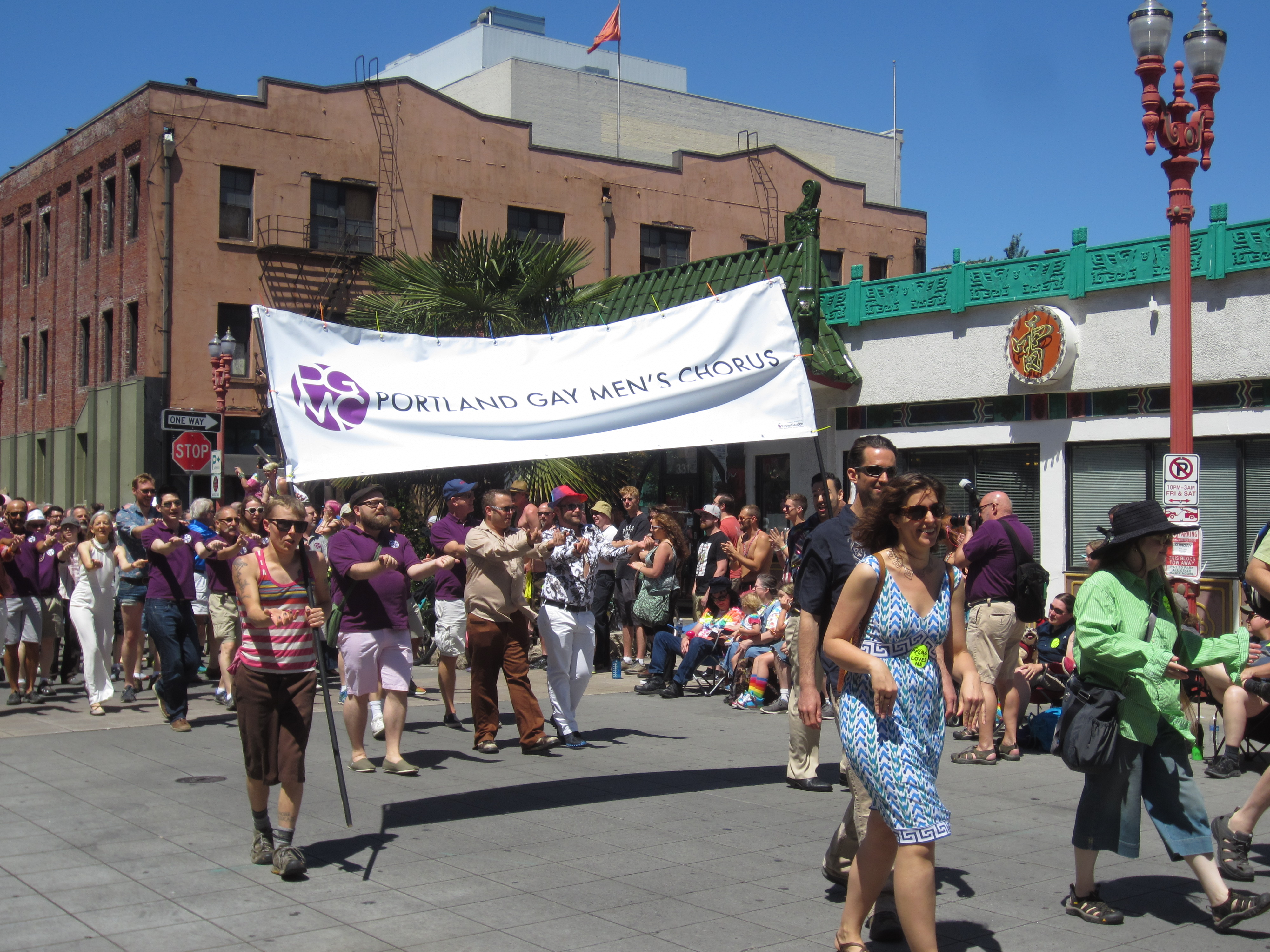 Pride parade, Portland, Oregon (2015)